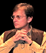 W. Ian Lipkin